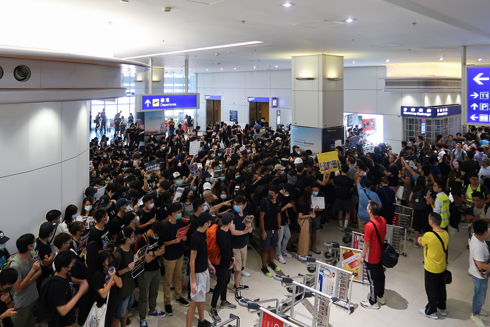 Protester blocked Terminal 2 Departure area